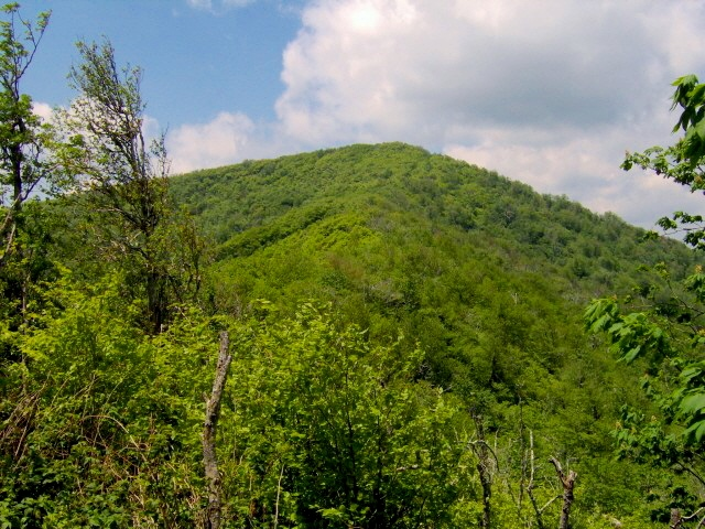 The summit of Silers Bald in the Great Smoky Mountains, looking west from the Narrows. The elevation of the Narrows is approximately 5,000 feet/1,524 meters. The elevation of Silers Bald is 5,607 feet/1,709 meters. The Appalachian Trail crosses both.